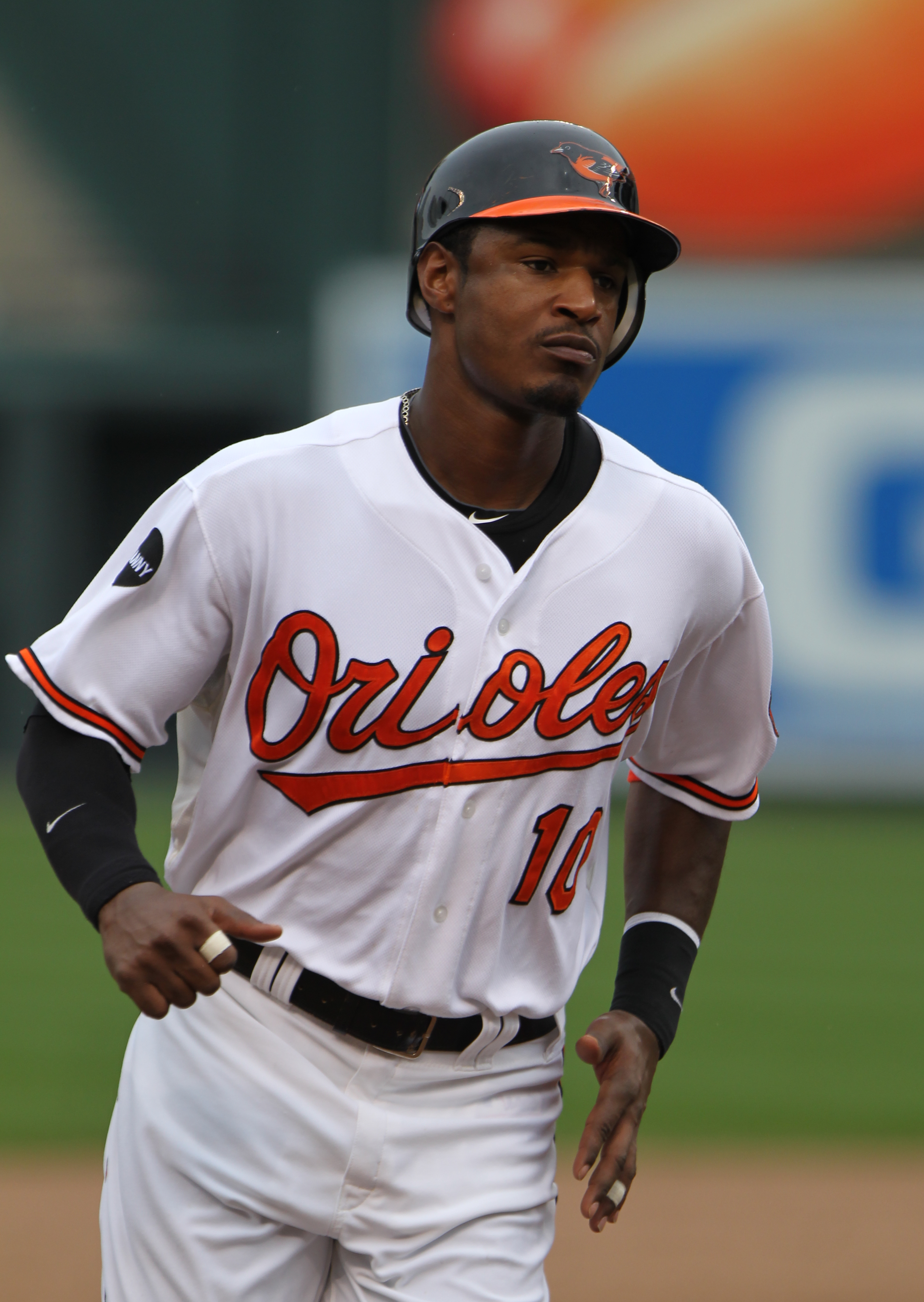 Blue Jays at Orioles September 1, 2011